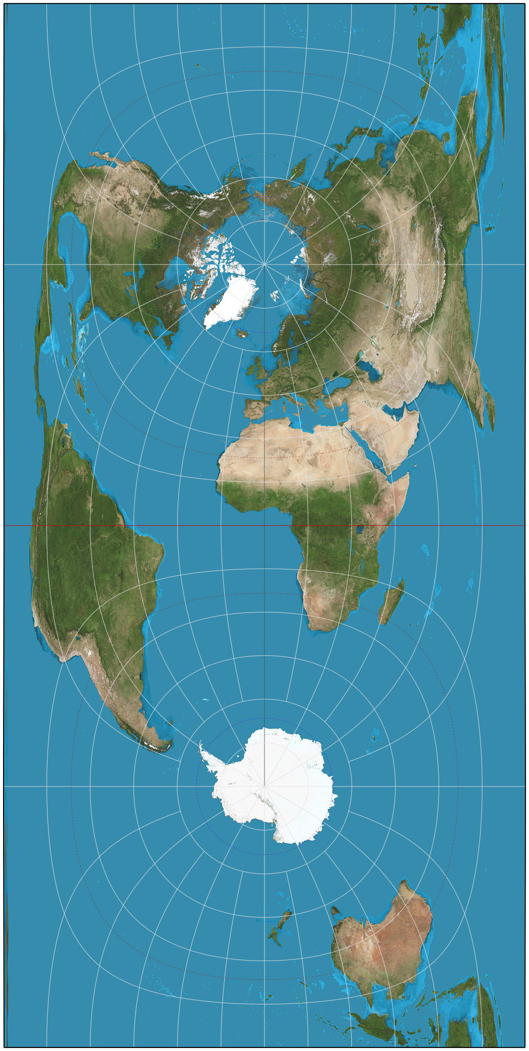 The world on Cassini projection. 15° graticule. Imagery is a derivative of NASA’s Blue Marble summer month composite with oceans lightened to enhance legibility and contrast. Image created with the Geocart map projection software.